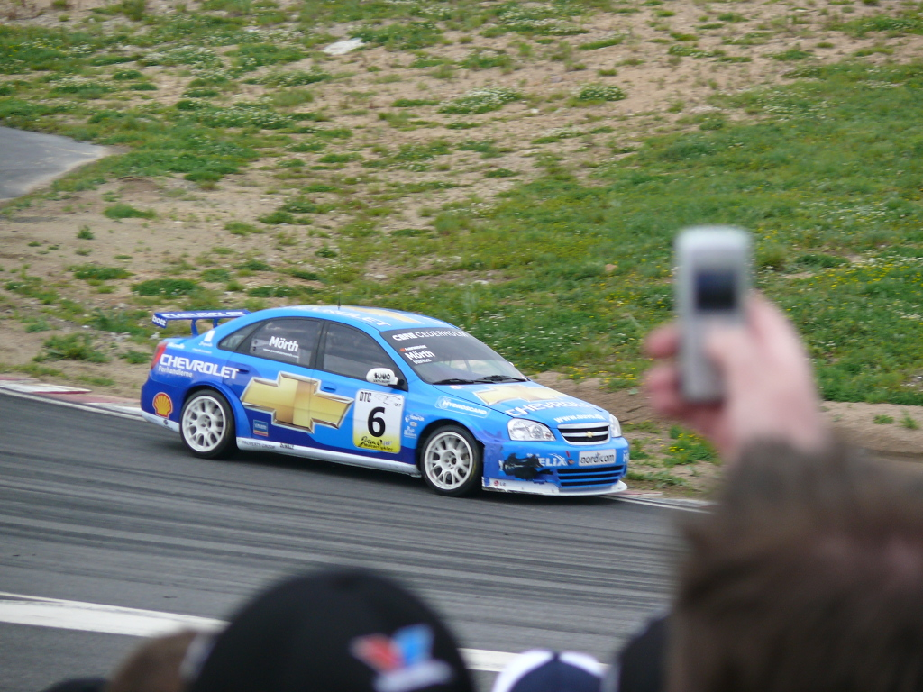 A man taking a picture with a cell / mobile phone. Chevrolet Lacetti piloted by Pontus Mörth in the 2007 Danish Touringcar Championship.